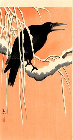 Work by Ohara Koson